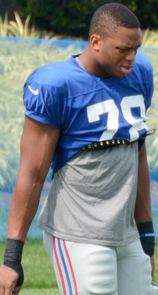 New York Giants training camp